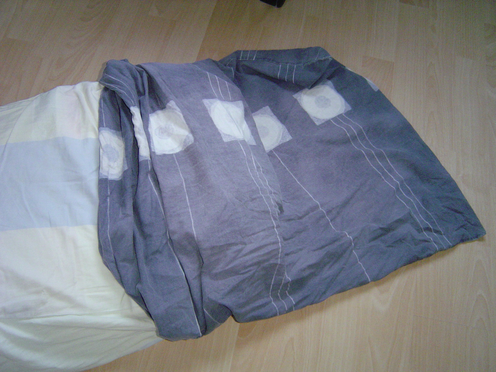 a pillow case (or pillow slip), with the pillow sticking out on the left.